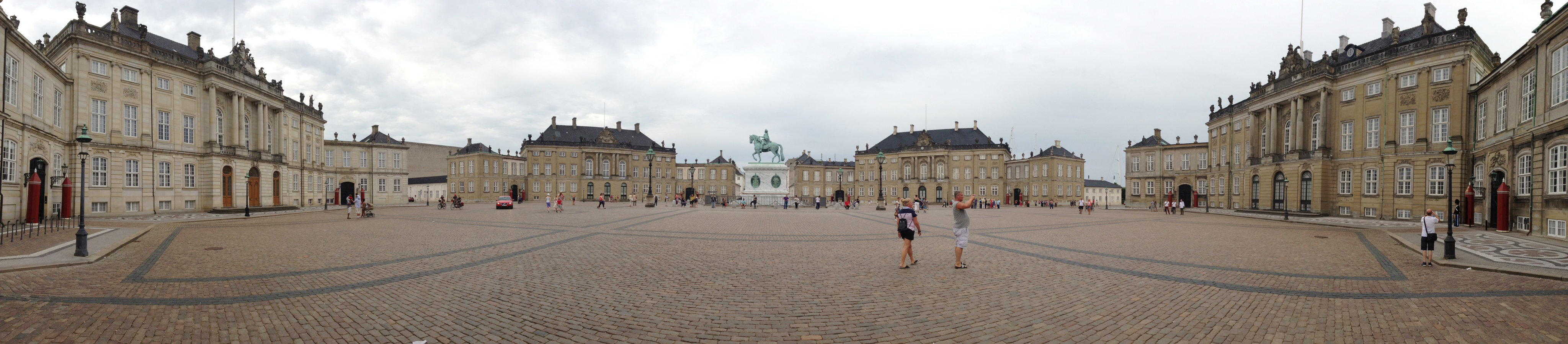 Panorama photo of Amalienborg taken in july 2013.